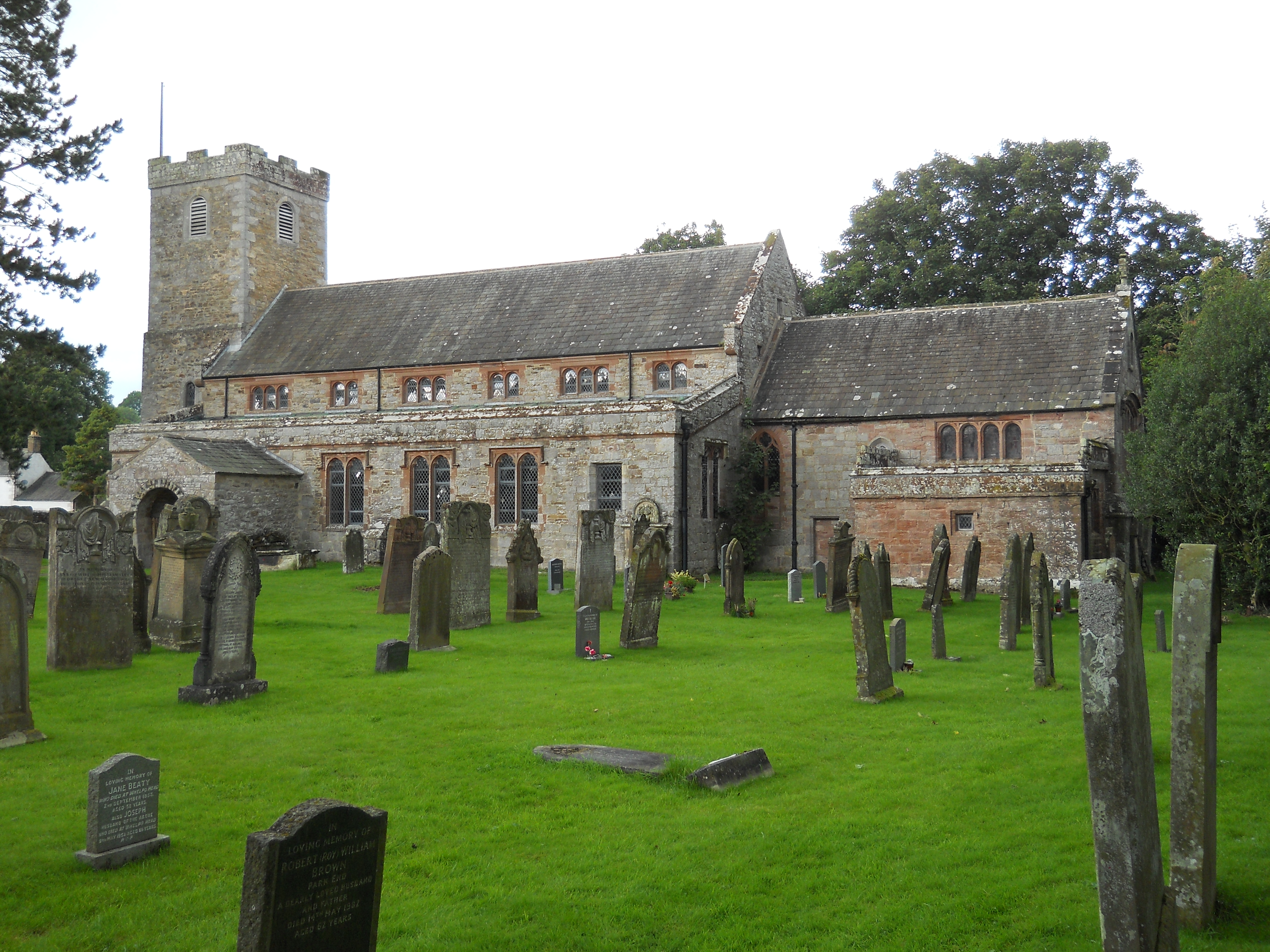 St Kentigern's Church, Caldbeck - view from just inside the side kissing gate